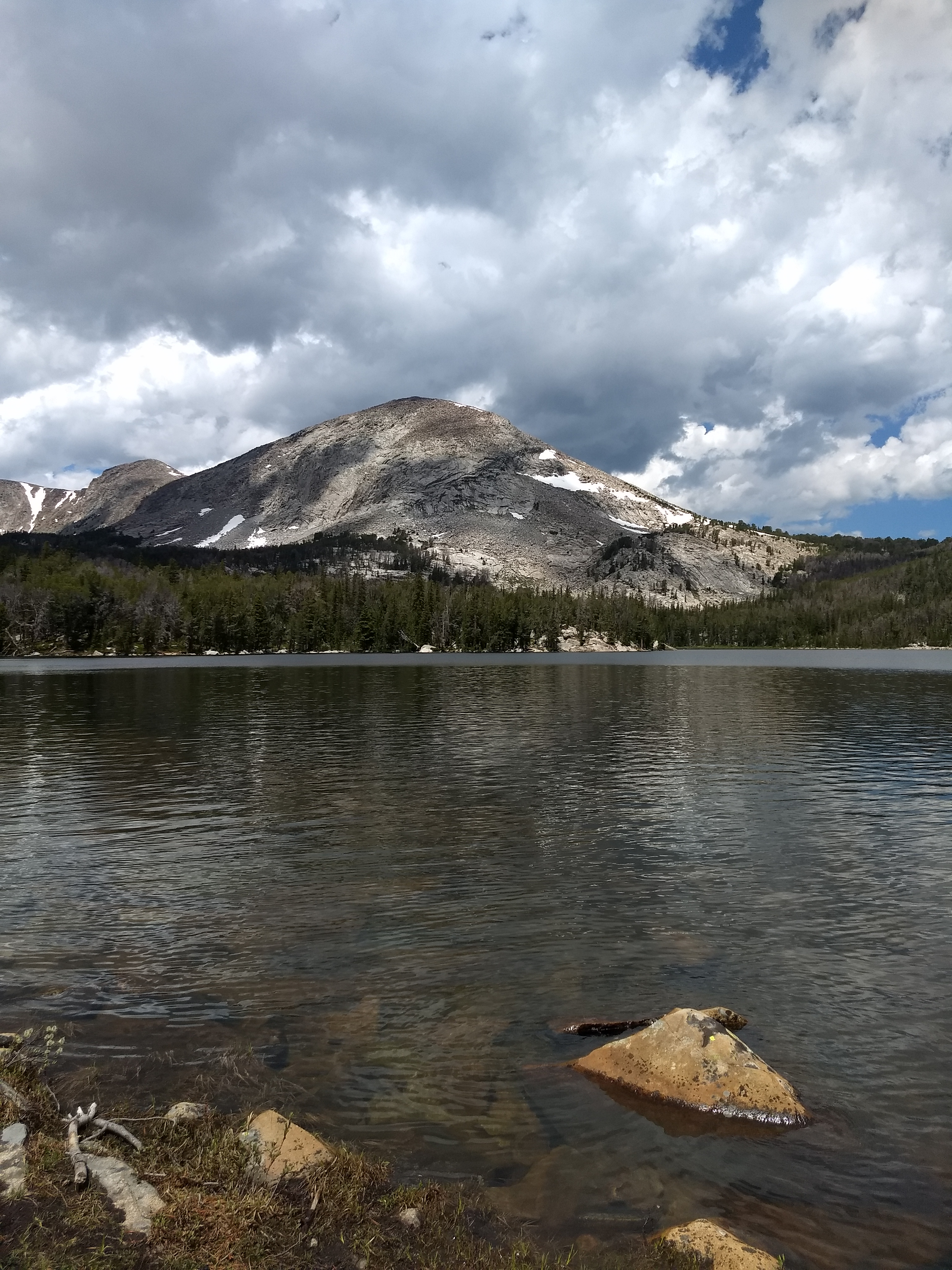 Upper Silas Lake in Fremont County Wyoming July 2019.